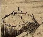 Shemakha (in Azerbaijan)